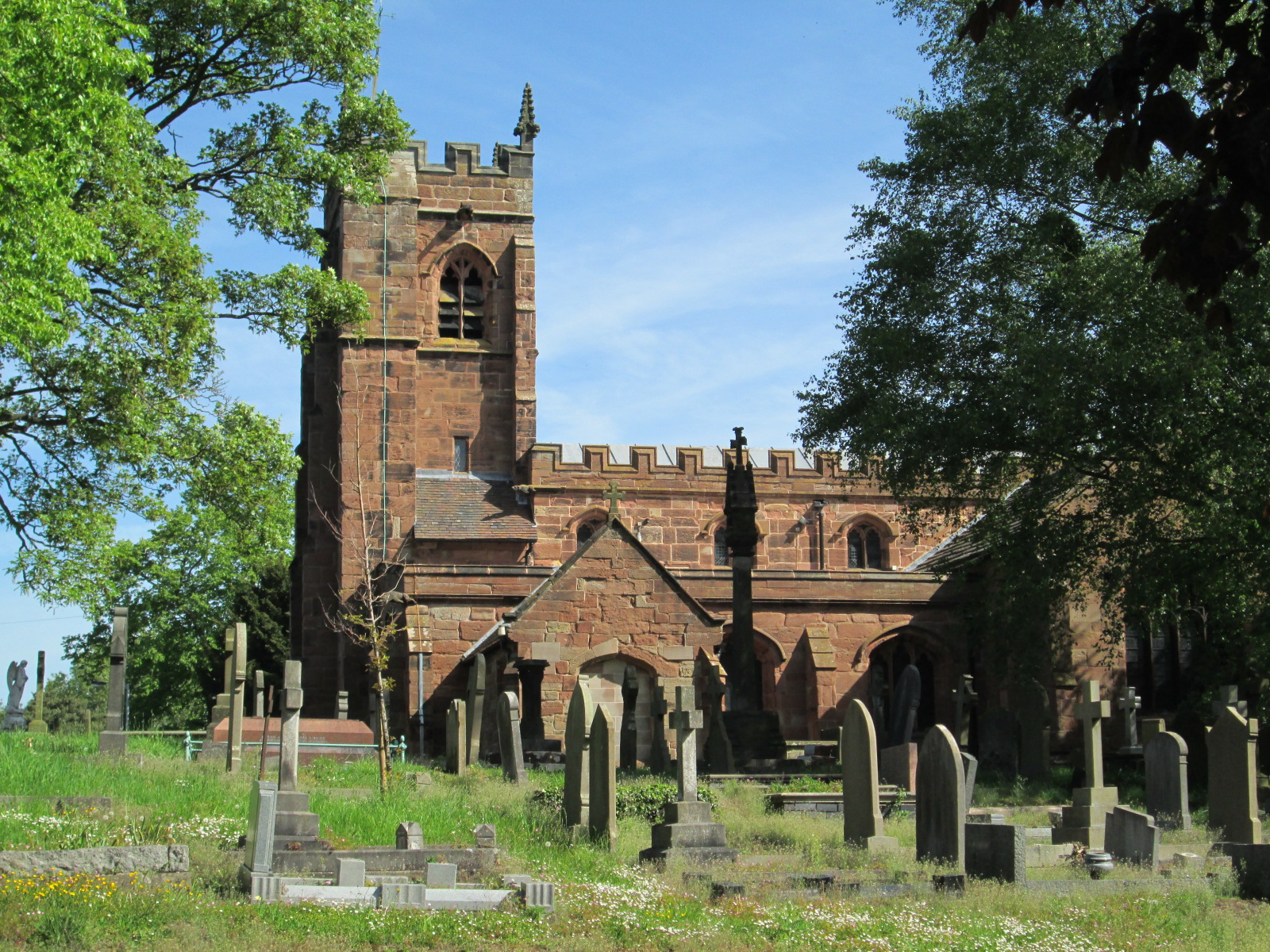 All Saints' Church, in Madeley, Staffordshire, viewed from the south.